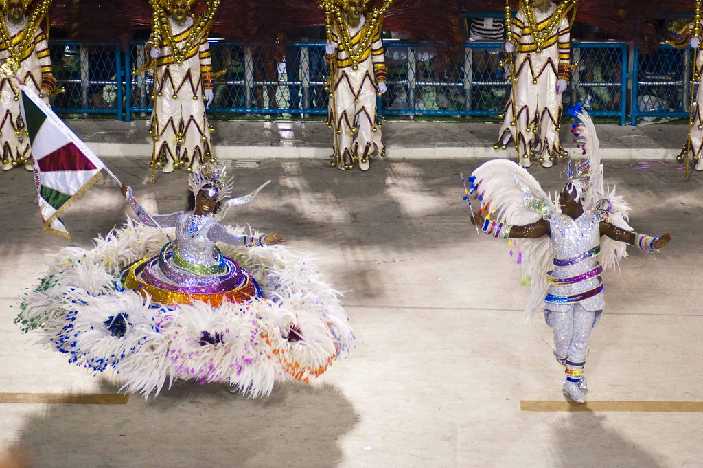 Image of the Rios Carnival 2010 in Sambadrome Marquês Diu Sapucaí